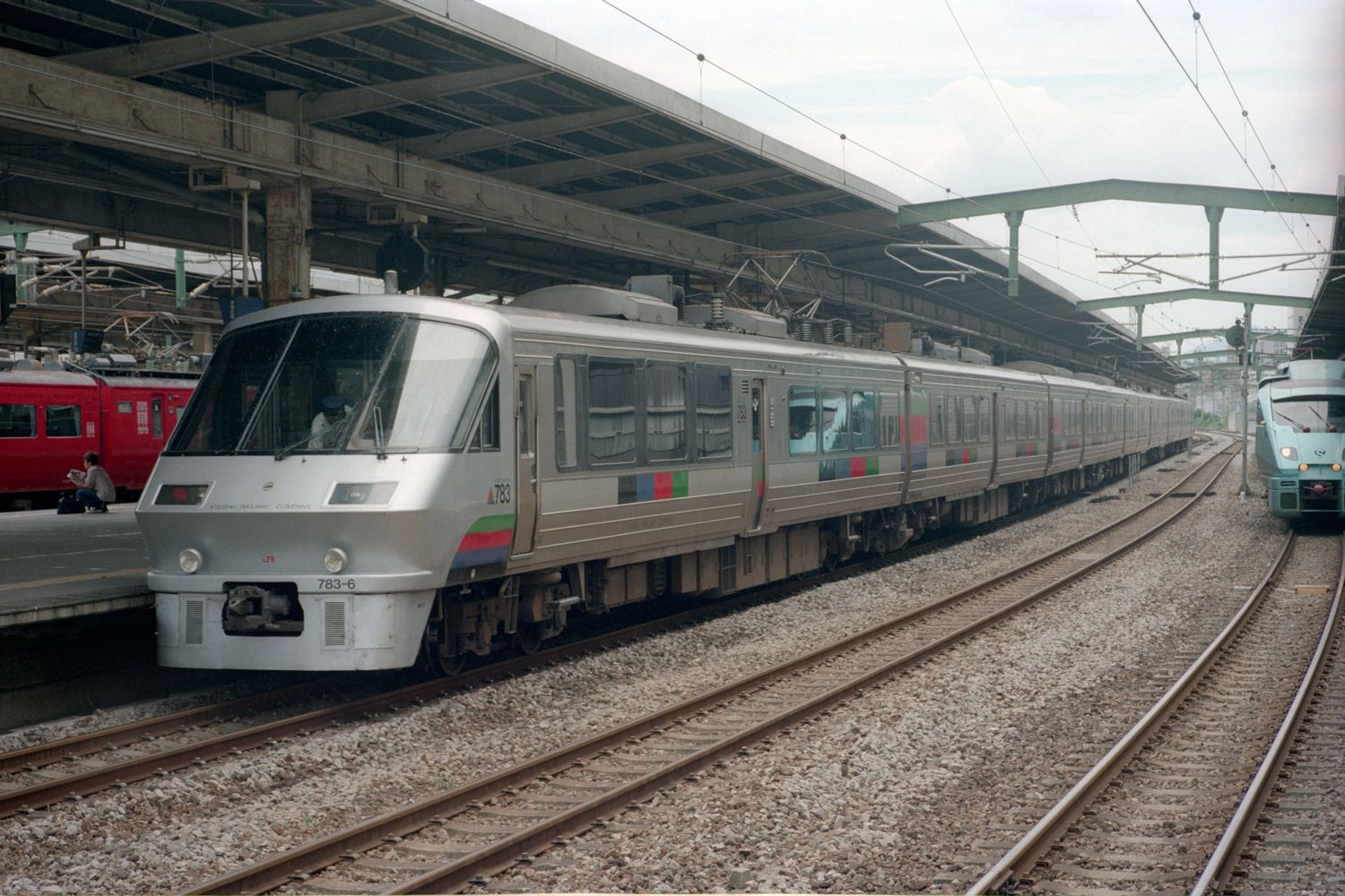 A JR Kyushu 783 series 8-car EMU set at Hakata Station on a Kamome limited express service